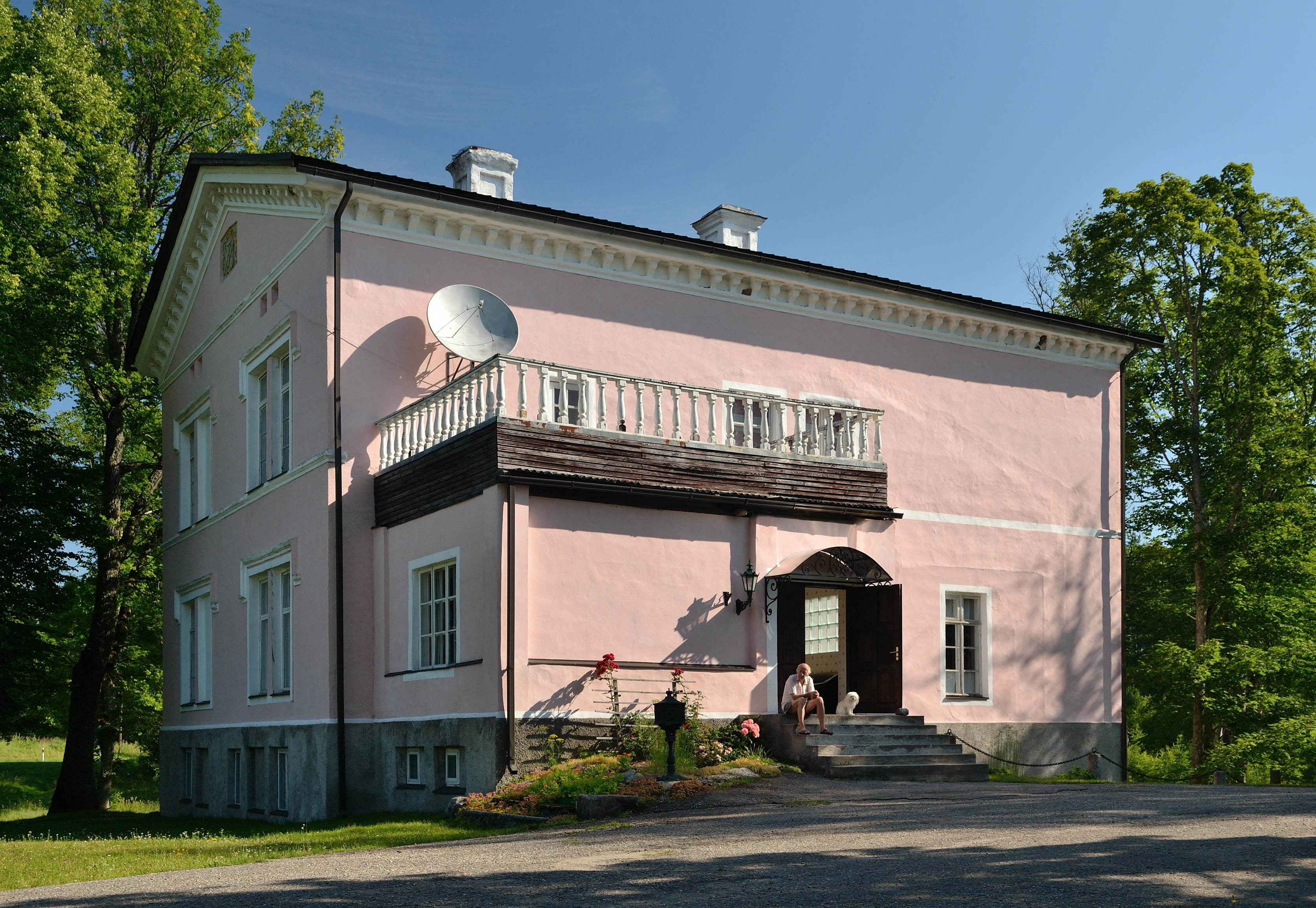 Linnamäe manor main building